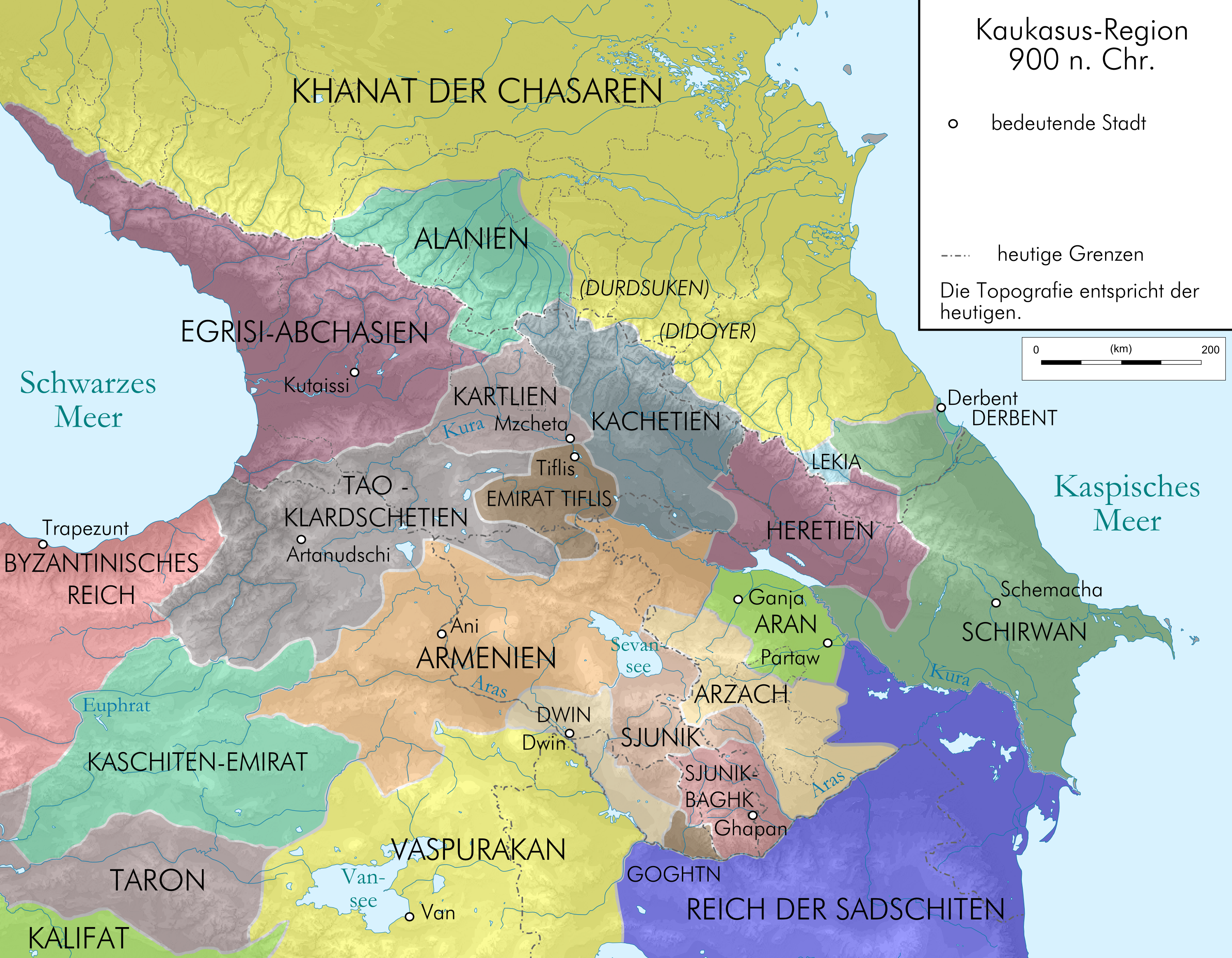 Map of Caucasus Region around 900 AD in German, alternate version.